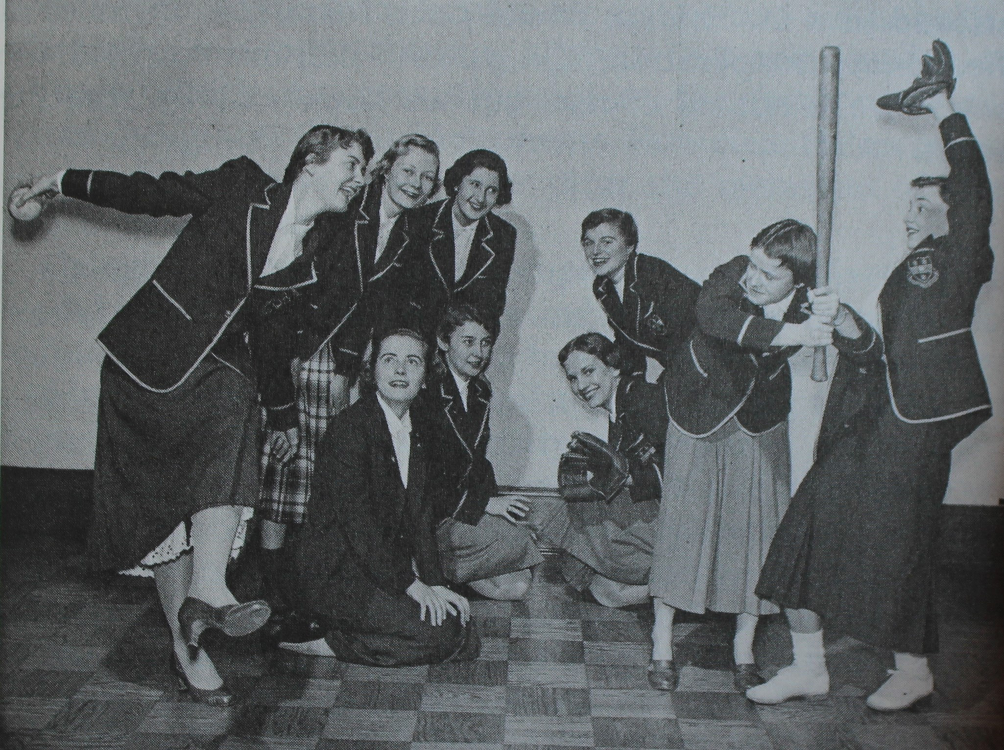 The baseball team of St. Hilda's College, at Trinity College Toronto, 1957